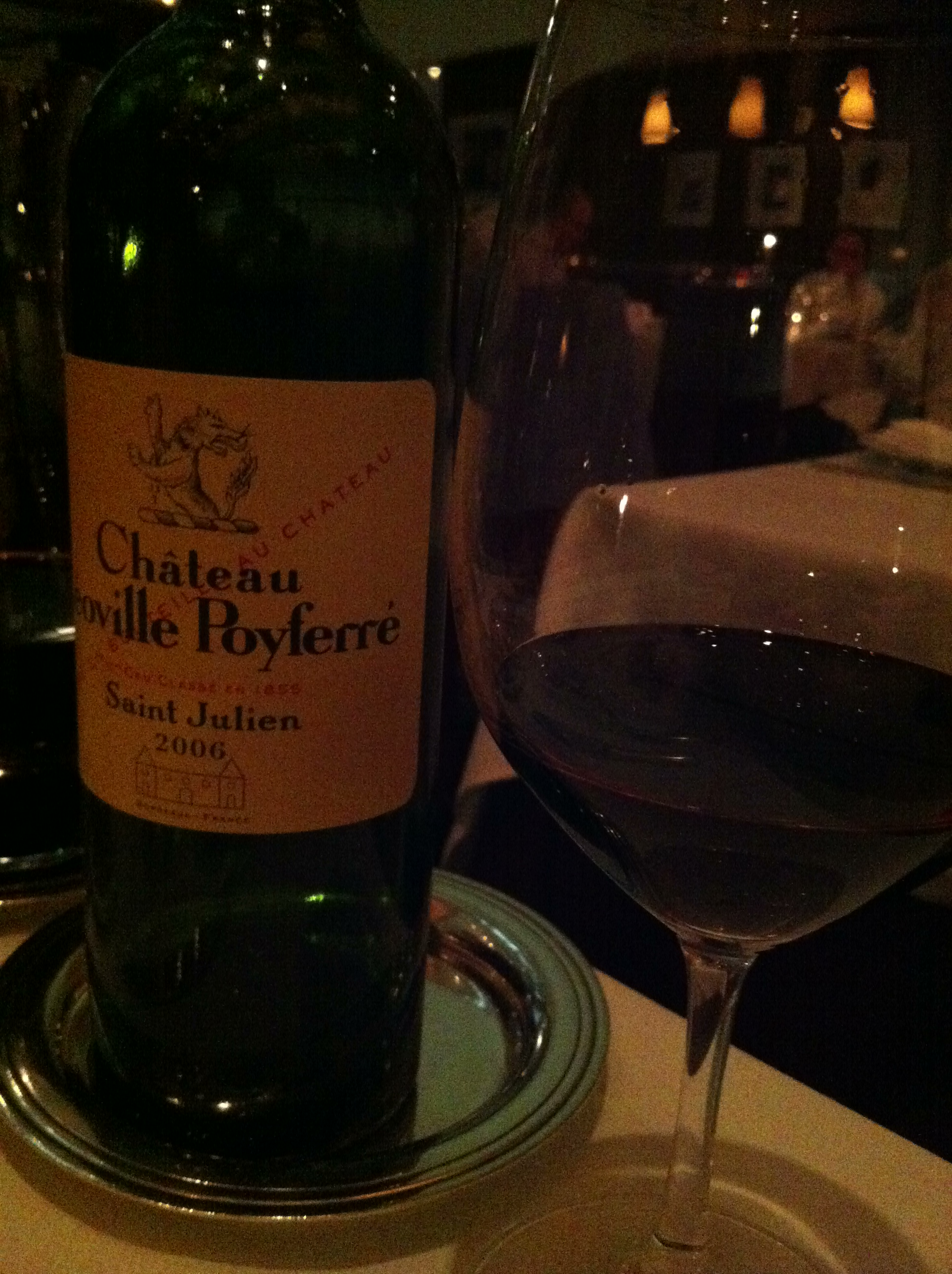 French Bordeaux wine from the Medoc region of St julien.